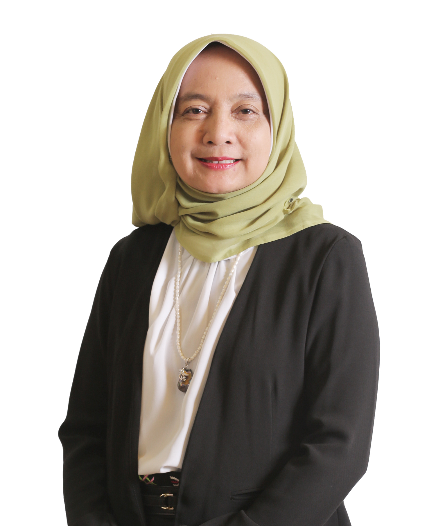 Lana Soelistianingsih, Chief Executive Officer Indonesian Deposit Insurance Corporation